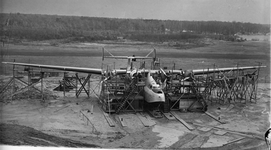 130 with larger wing, exported to USSR